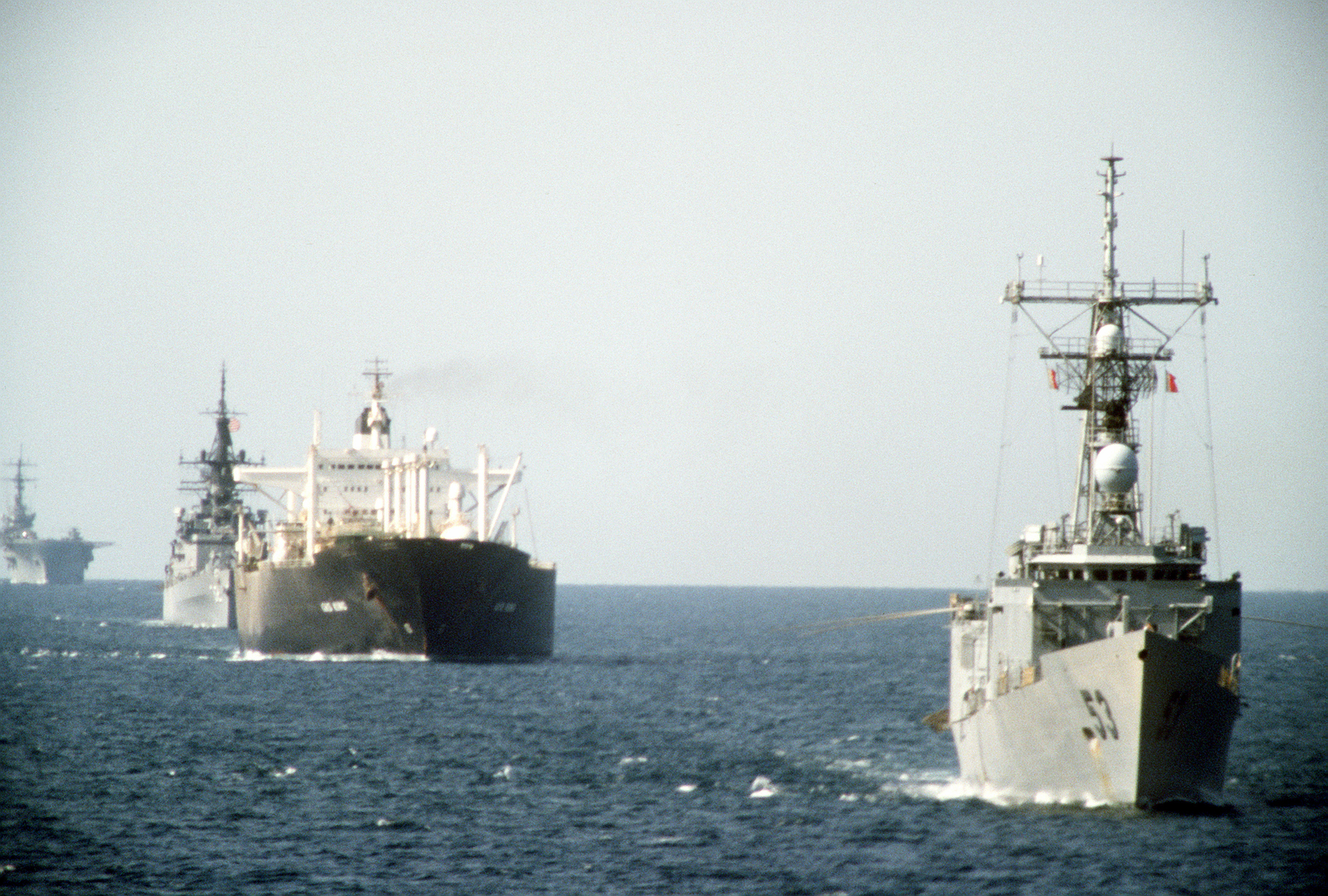 A view of ships of tanker convoy No. 12 underway in the Persian Gulf on 21 October 1987. Included in the convoy were the U.S. Navy guided missile frigate USS Hawes (FFG-53), the reflagged tanker Gas King, the guided missile cruiser USS William H. Standley (CG-32) and the amphibious assault ship USS Guadalcanal (LPH-7).